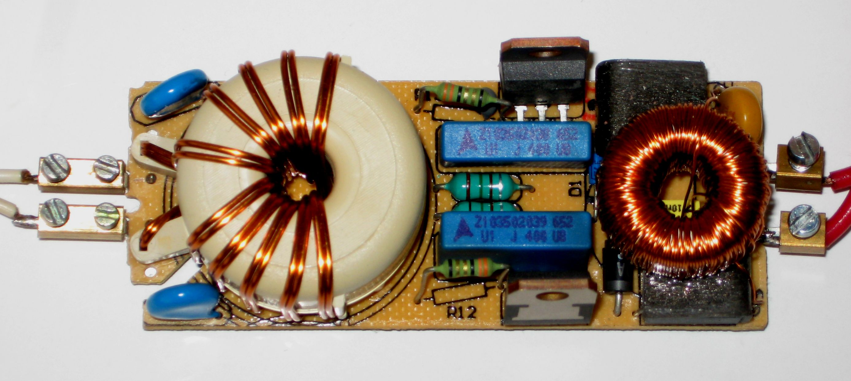 "Electronic transformer" for halogen lamps inside